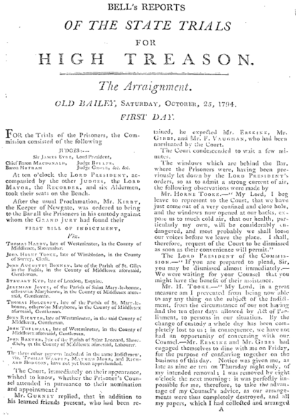 Bell's account of the 1794 Treason Trials